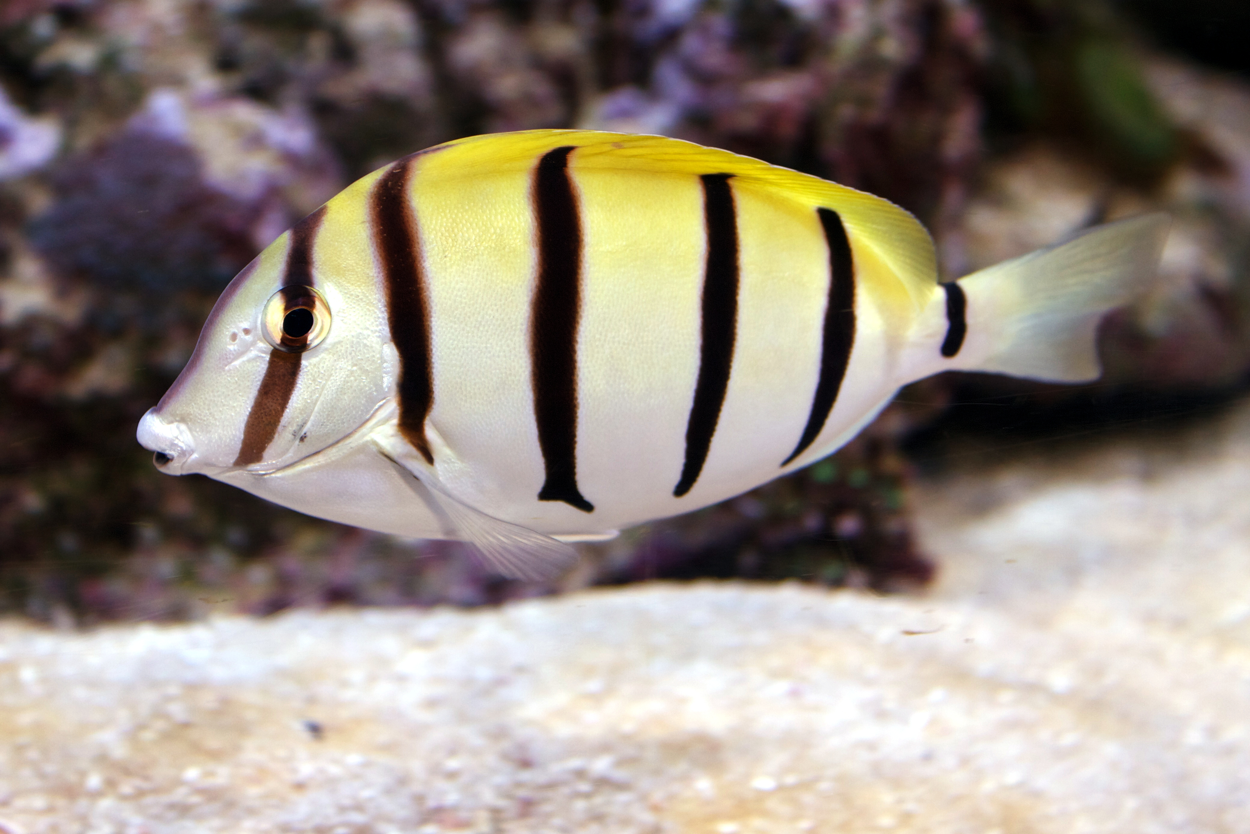 Convict Surgeonfish, Acanthurus triostegus